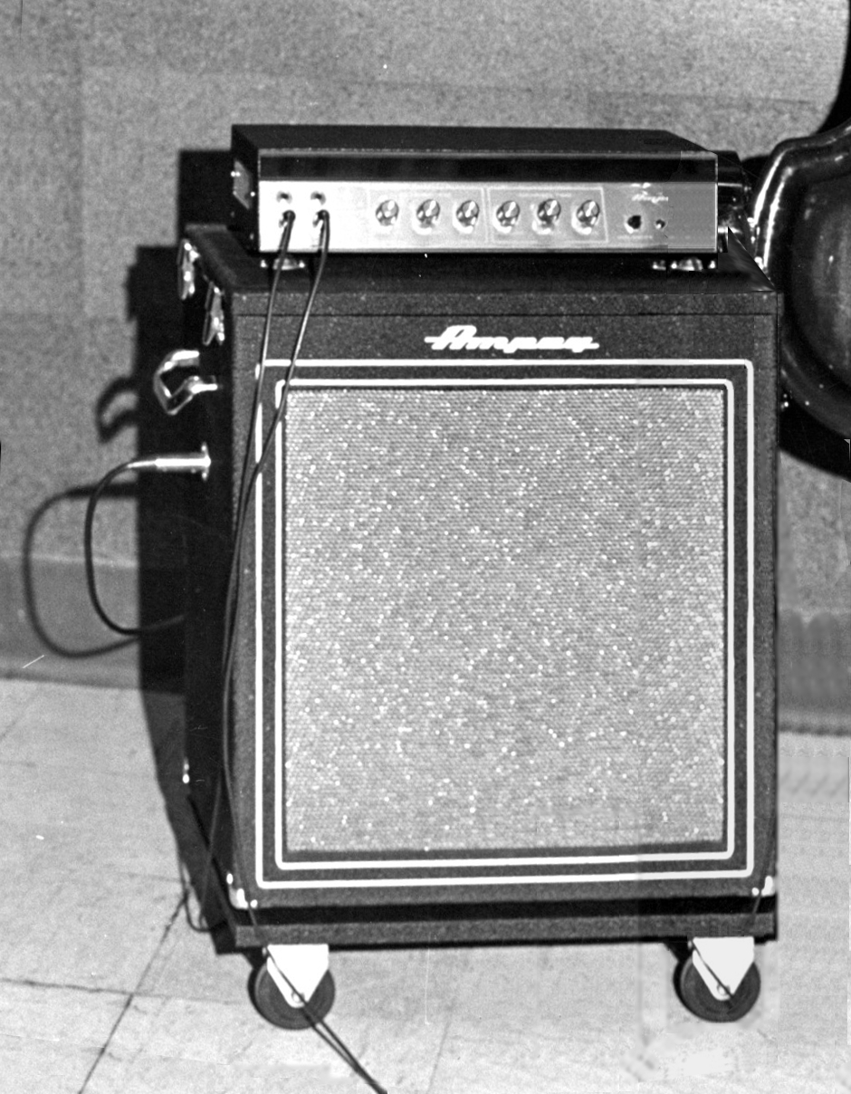 Arnold Fishkind's Ampeg B15 Bass Amp Note: although caption said "Ampeg B15 Bass Amp", its flat headamp & white double border line on speaker cabinets resembles later released transistor version "Ampeg BT-15" (1966 introduced/1967 released) References "Solid-State in the Garden State" in Ampeg: The Story Behind the Sound, Musical Instruments Series, Hal Leonard Corporation, 1999, 288pp, p. 118 ISBN: 9780793579518. “At the 1966 summer NAMM show, Ampeg displayed a line of solid-state amplifier. ... they were officially offered in a separate catalog in 1967. Seven models were listed, all of them two-channel Portaflex amps with volume, treble, and bass controls for each channel. These amps also featured an "electroluminescent" control panel, which would glow, without using light bulbes, to backlight the controls. ...” Clint Stiles (stiles72). Ampeg BT-15C (photo gallery). .